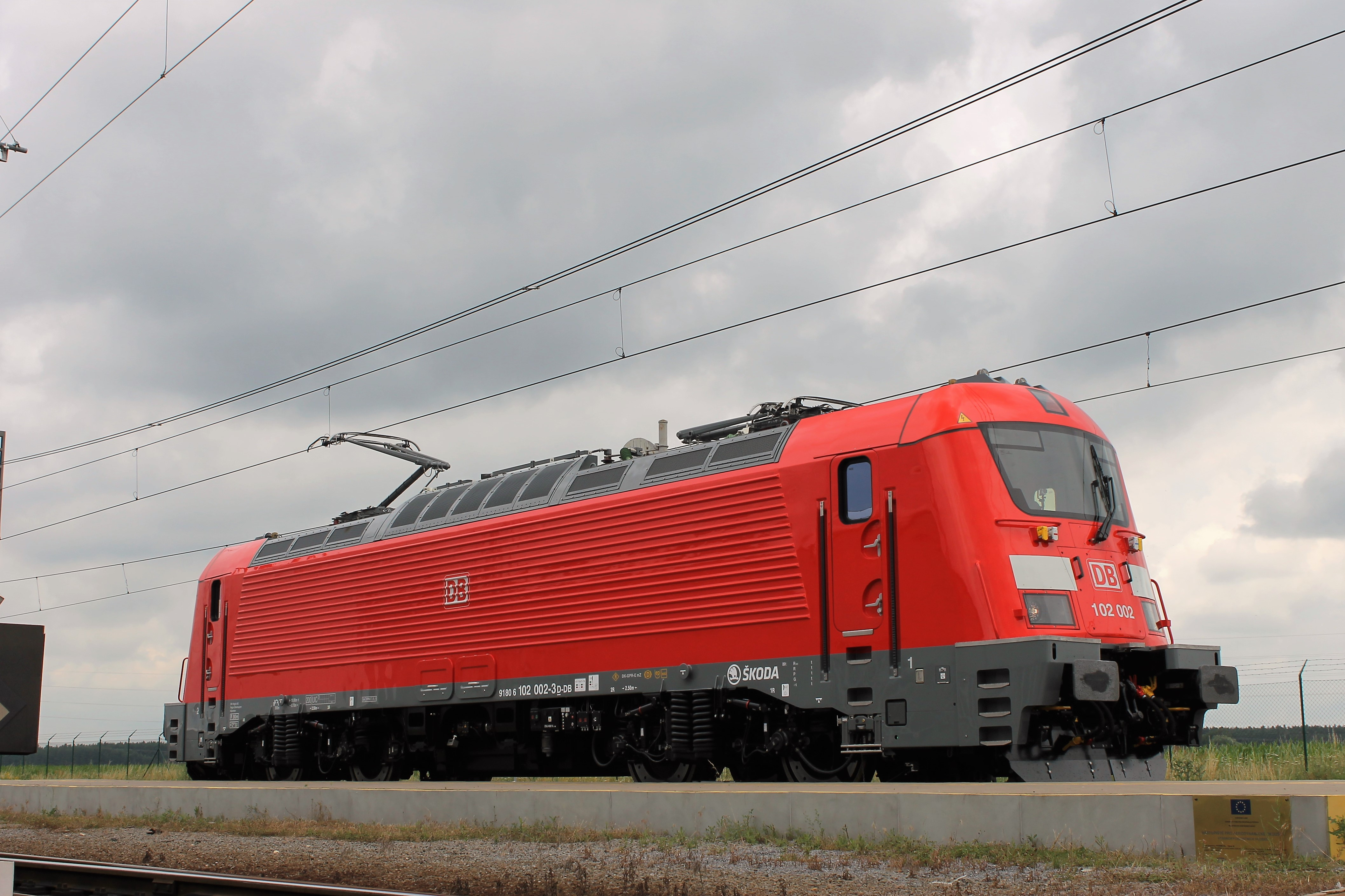 DB Class 102, Velim railway test circuit (Czech Republic).